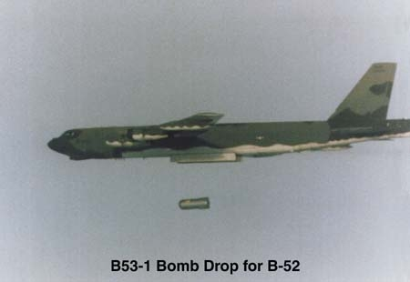 B53-1 nuclear bomb dropped from a B-52H